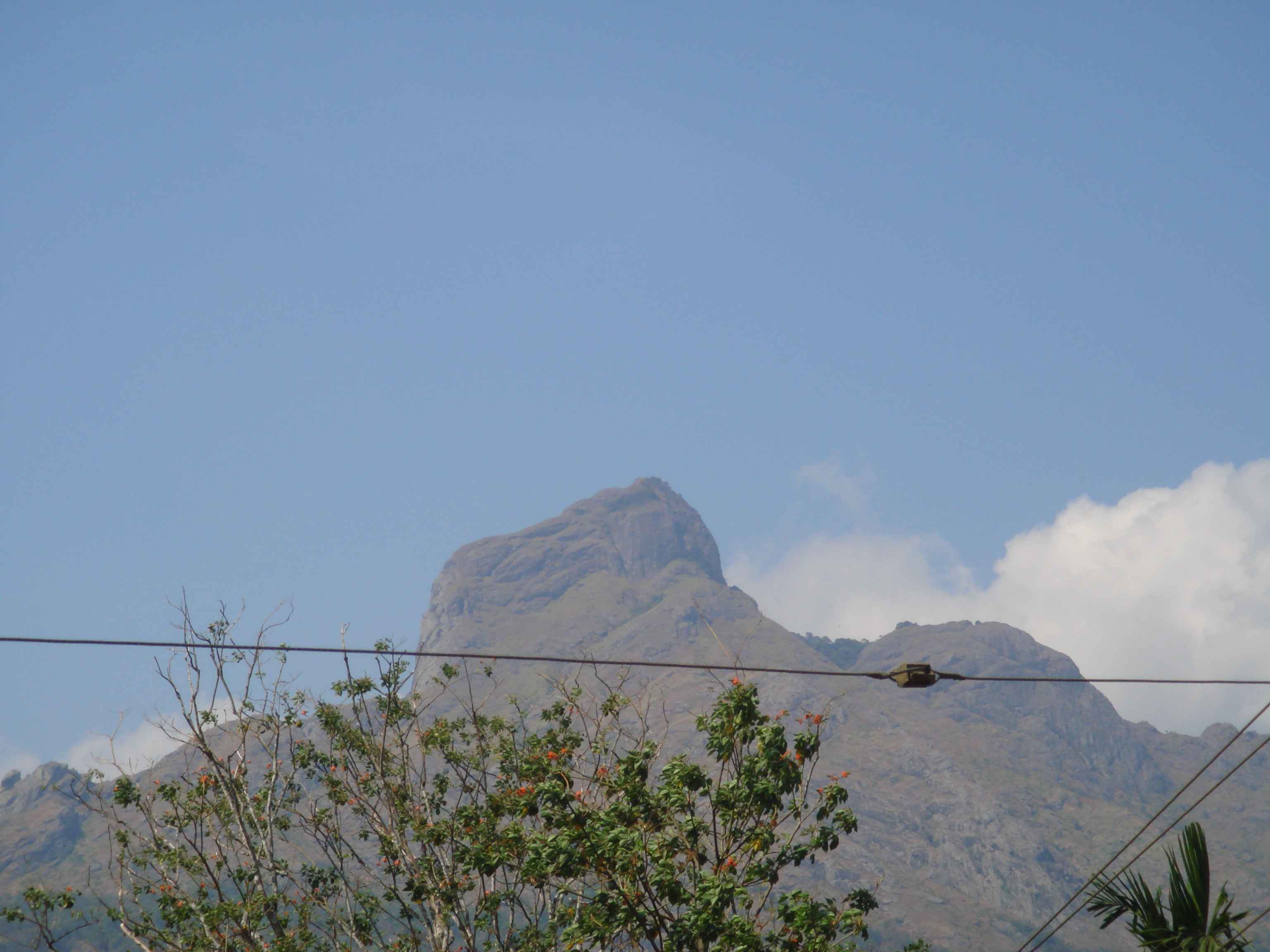 Taken By Myself, from Attappady. View of Malleeswaran Mala (Mudi)